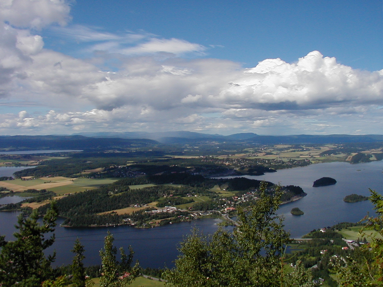 The rural community Hole, situated in Norway 30 minutes driving outside Oslo. The photograph was taken by myself. In the foreground lakes Steinsfjorden and Tyrifjorden.